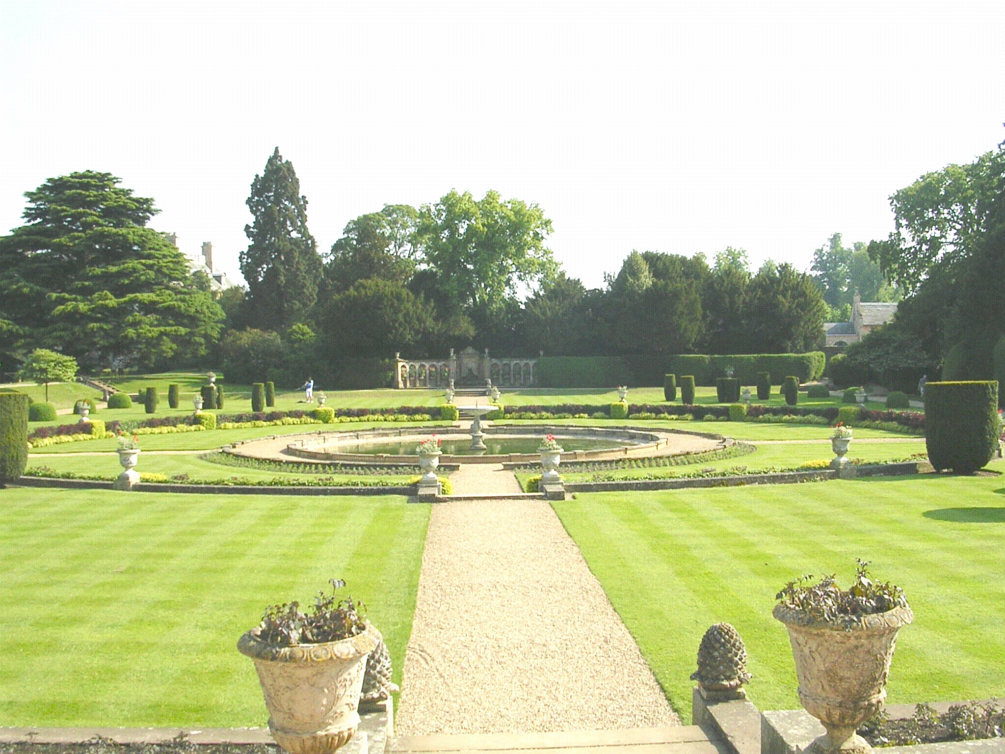 Exedra at Belton House. Photographed by Giano June 2006. Retouched by Rugby471.